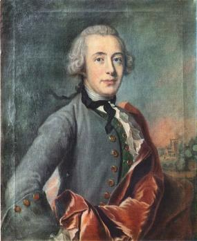 Oil painting by J.H. Schaeffler.